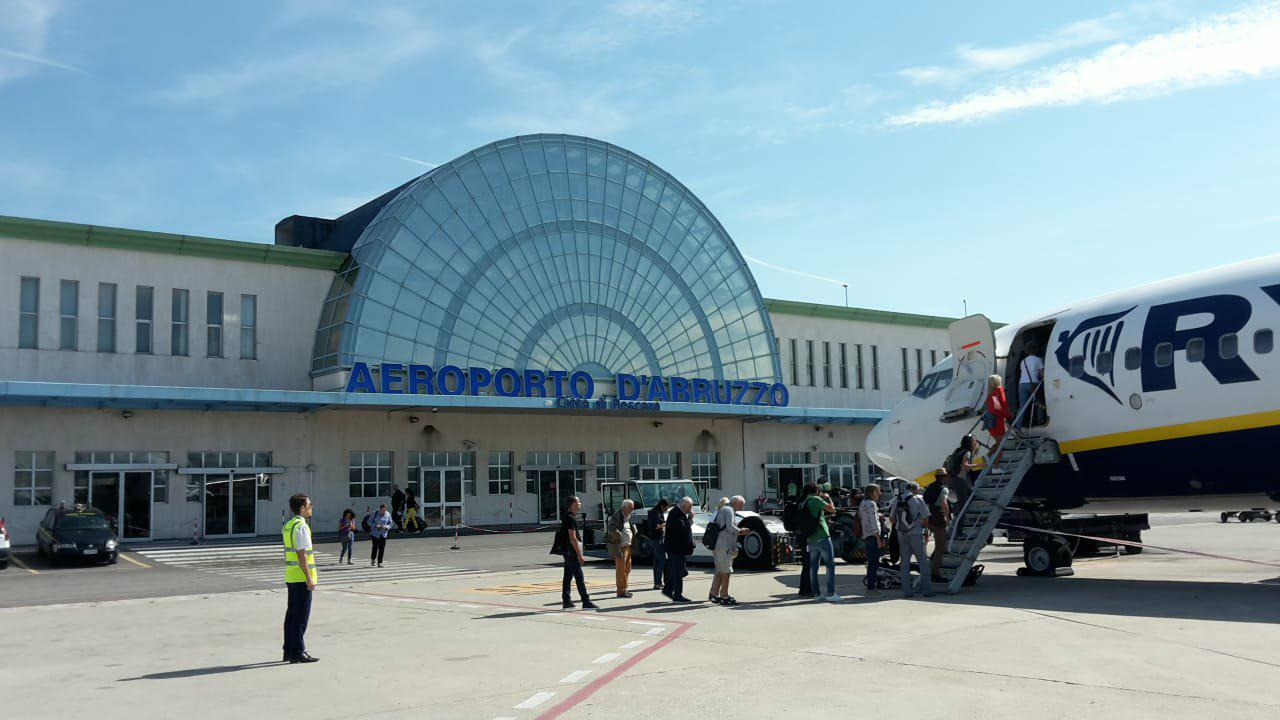 Abruzzo Airport's Terminal, seen from its main apron